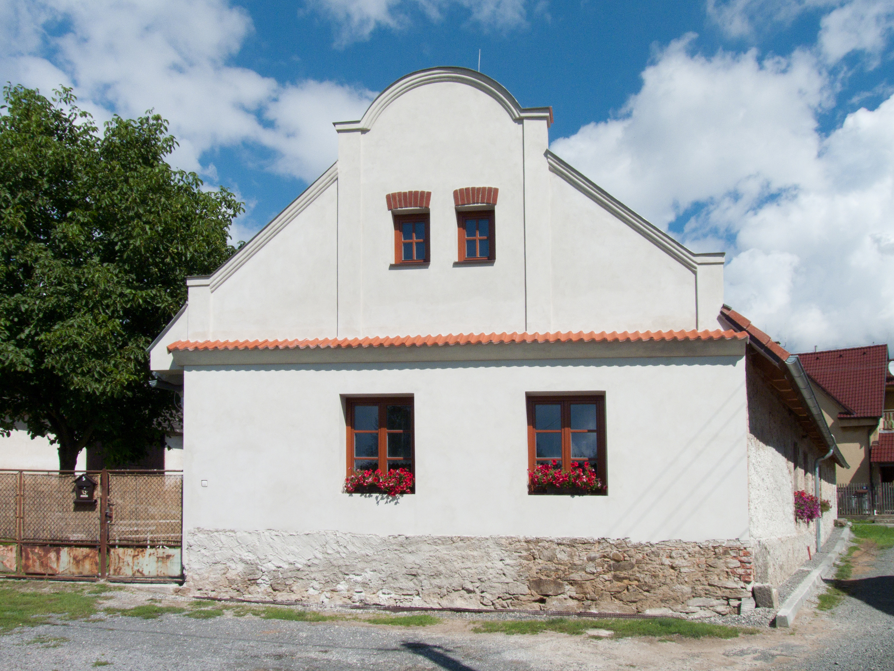 House No 5 in the village of Smyslov, part of the town of Tábor, Tábor District, Czech Republic